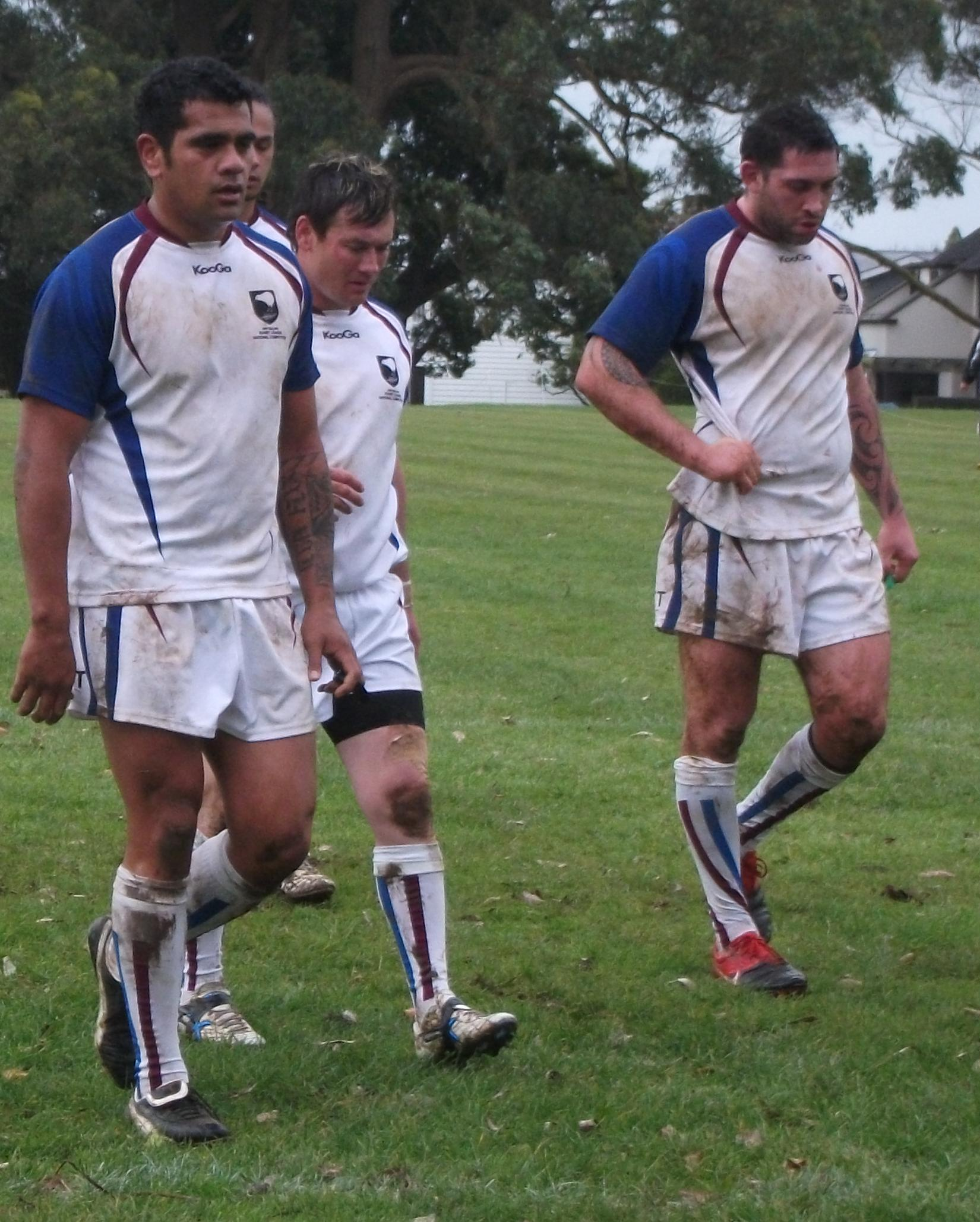 The Auckland Zone rugby league team coming off at halftime in there match vs the South Island rugby league team at Cornwall Park Stadium on 25 September 2010.